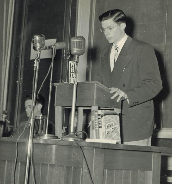 Jerome Lyle Rappaport addresses the Harvard Law School Forum, 1946.